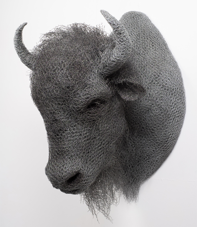 This sculpture is in the collection of the Museum of Wildlife Art, Jackson, Wyoming